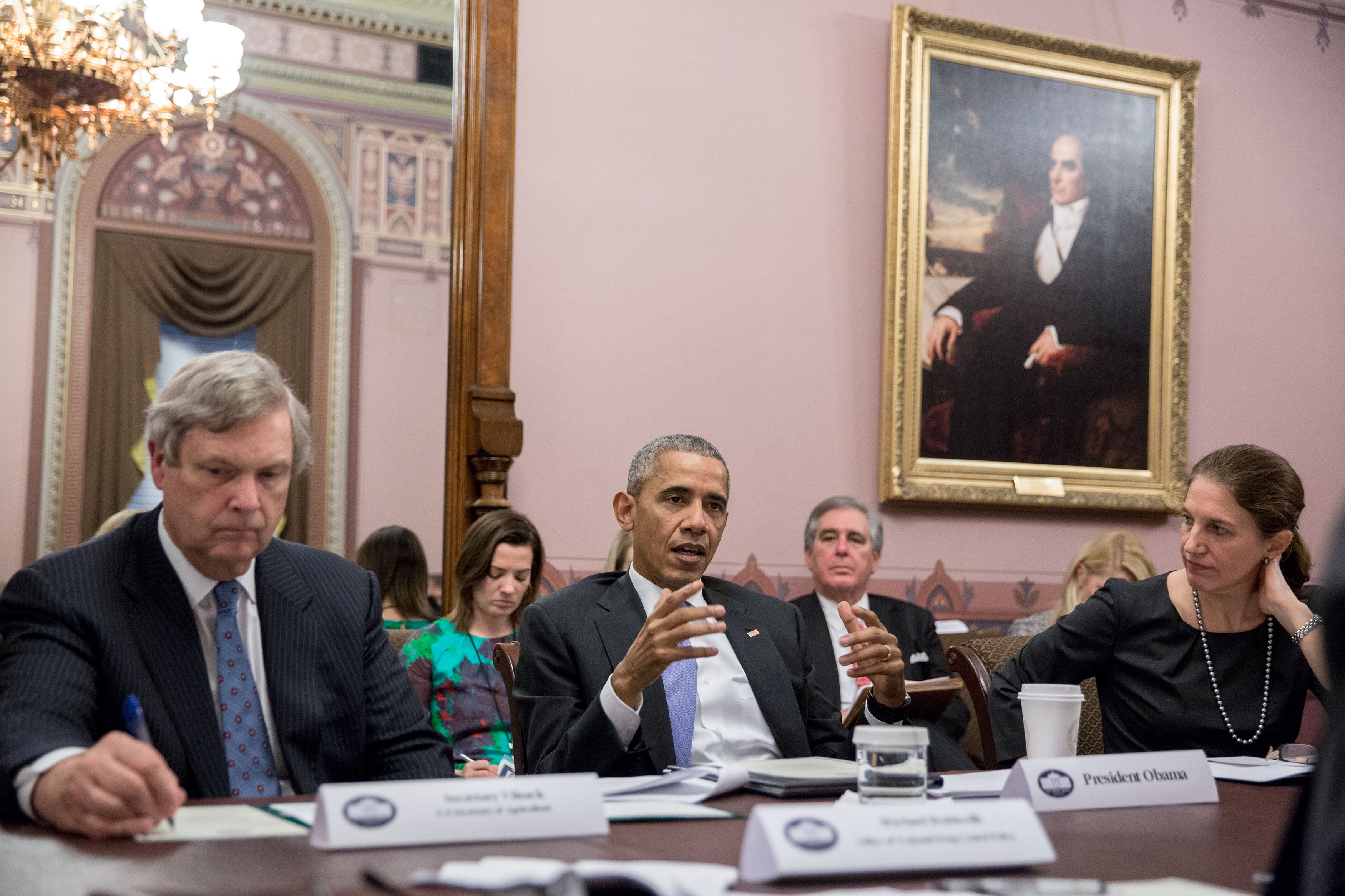 President Barack Obama drops by the Rural Council meeting in the Eisenhower Executive Office Building of the White House, Feb. 3, 2016. The President is flanked by Agriculture Secretary Tom Vilsack, left, and Health and Human Services Secretary Sylvia Mathews-Burwell at right. (Official White House Photo by Pete Souza)